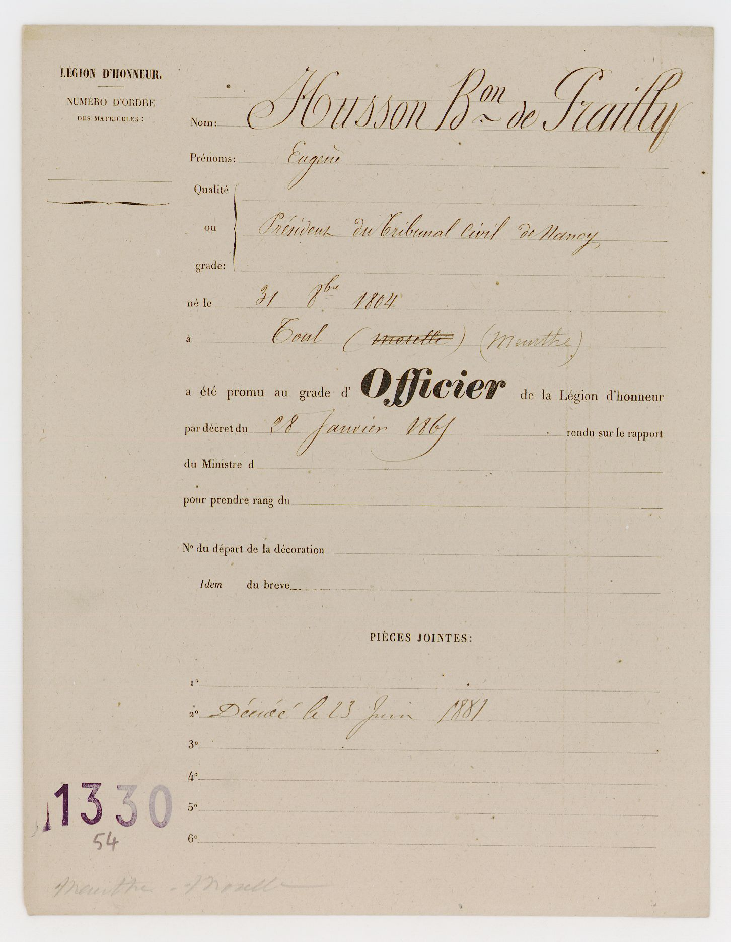 dossier de Légion d'honneur d'Eugène Husson